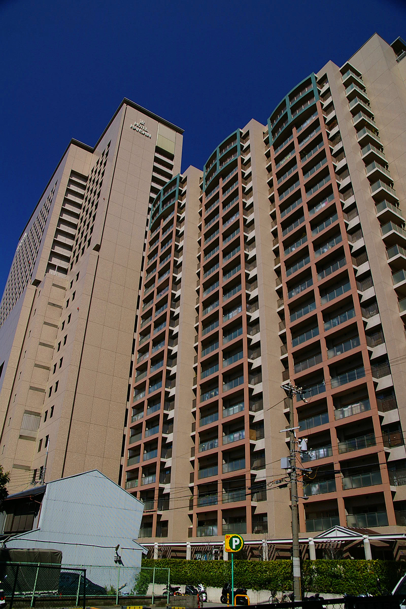 Laxa Osaka (Residence), Osaka city, Japan